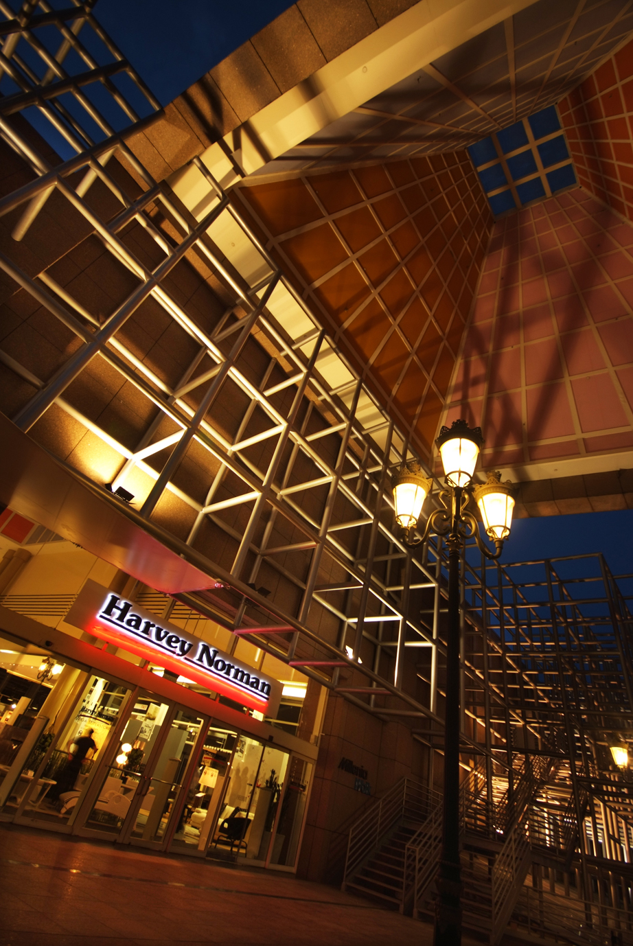 Testing my gorillapod wrapped to a railing. It's an incredible invention that gives you endless creative angles to play with. Shot taken at Harvey Norman, Millenia Walk Singapore. Straight off the cam with slight sharpening and levels on CS3 for the dark areas. WB:6300k Filter: Polarizer